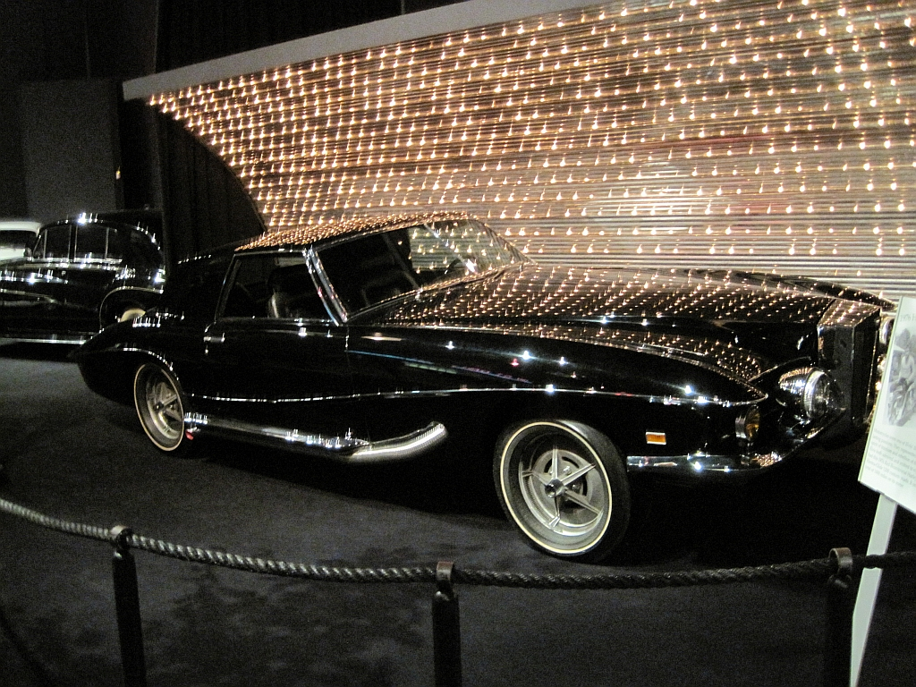 Elvis Presley Automobile Museum at Graceland in Memphis, Tennessee. 1971 Stutz Blackhawk